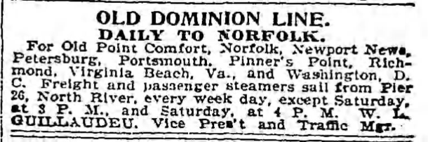 Old Dominion Steamship Company New York to Chesapeake Bay Ports advertisement, The Brooklyn Daily Eagle, 19 March 1898